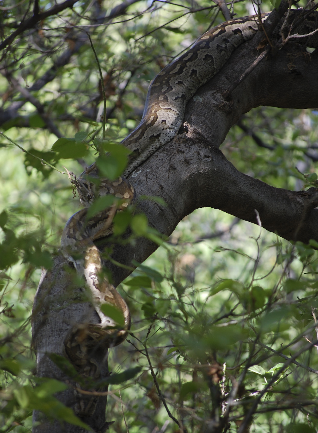 Southern African Rock Python (Python natalensis) in a tree. The picture was taken in Botswana at the Mashatu Game Reserve.